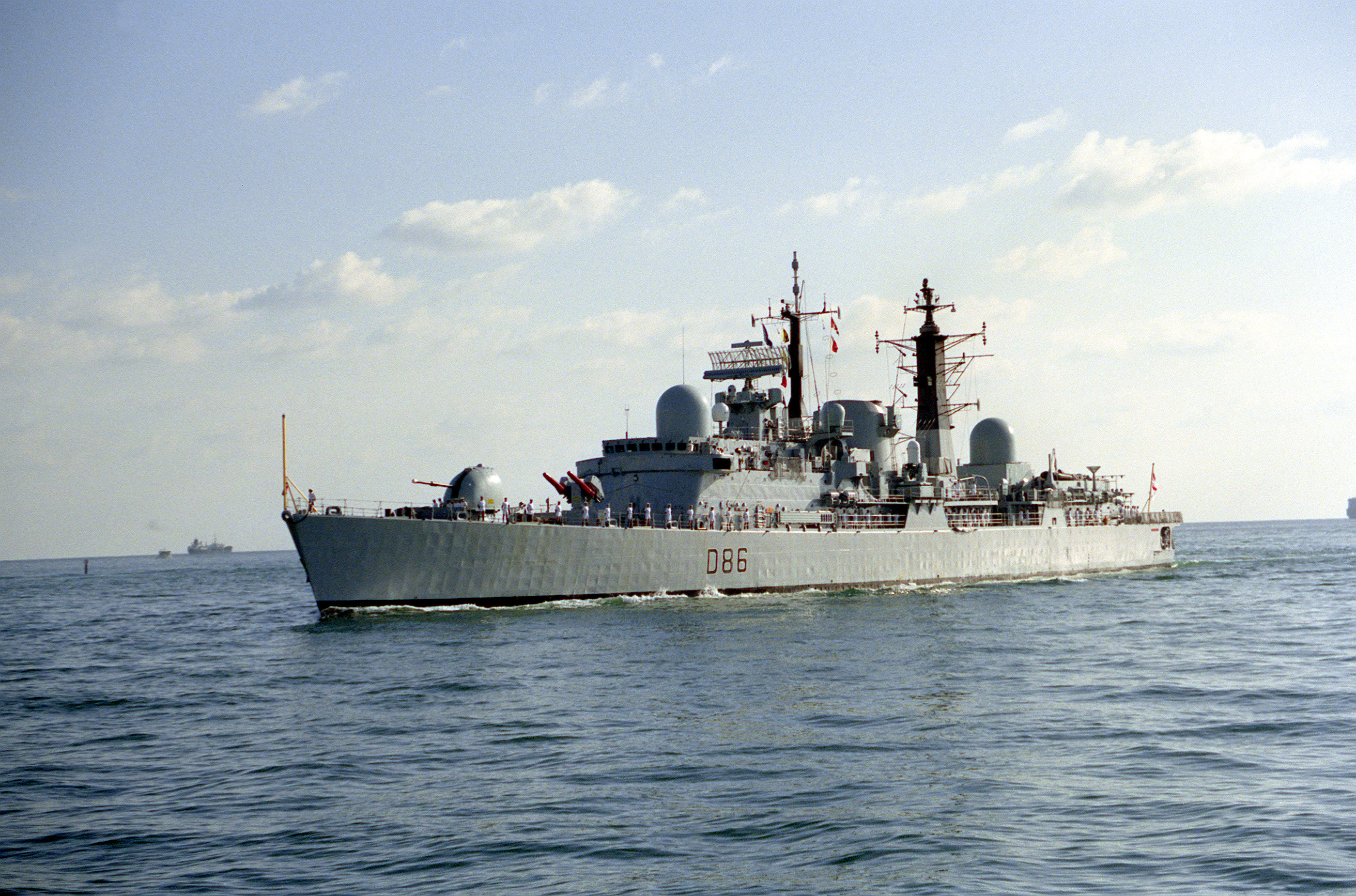 A port bow view of the British destroyer HMS BIRMINGHAM (D-86) entering port. The BIRMINGHAM is currently assigned to NATO's Standing Naval Force Atlantic.Location: PORT EVERGLADES, FLORIDA (FL) UNITED STATES OF AMERICA (USA)